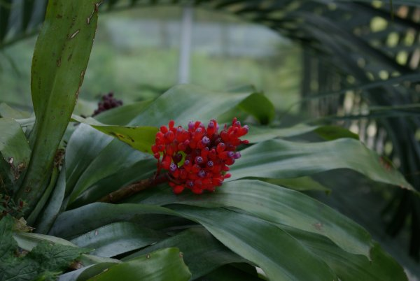 Coralberry (Aechmea fulgens), US Botanic Garden; photo provided with permission from USBG